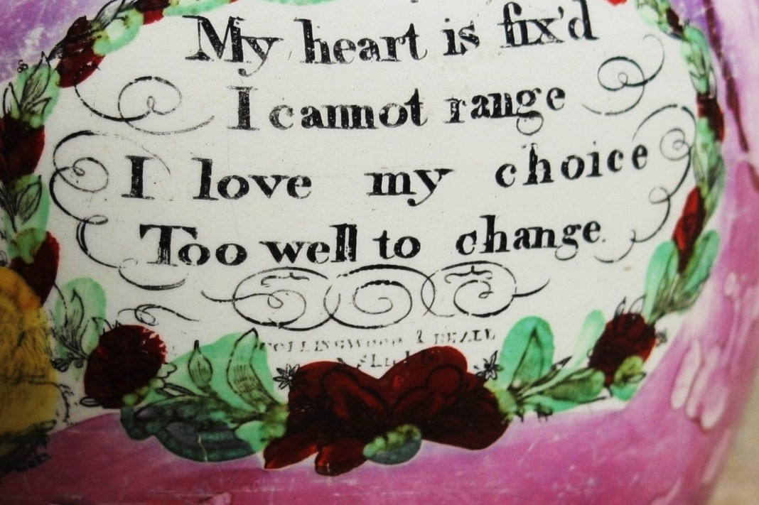 My own photograph of an item owned by me.